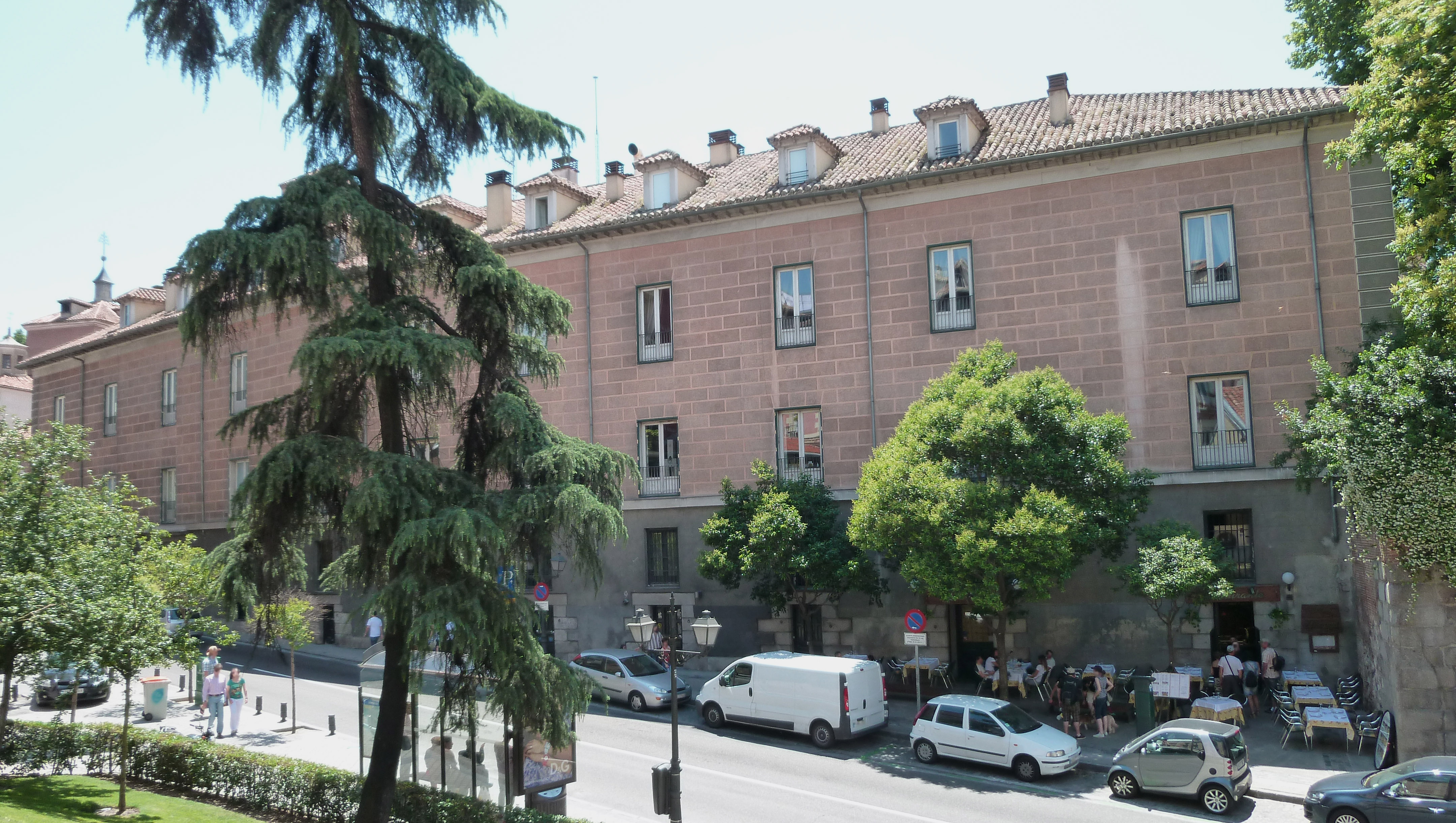 North façade of the Palace of the Prince of Anglona in Madrid (Spain).